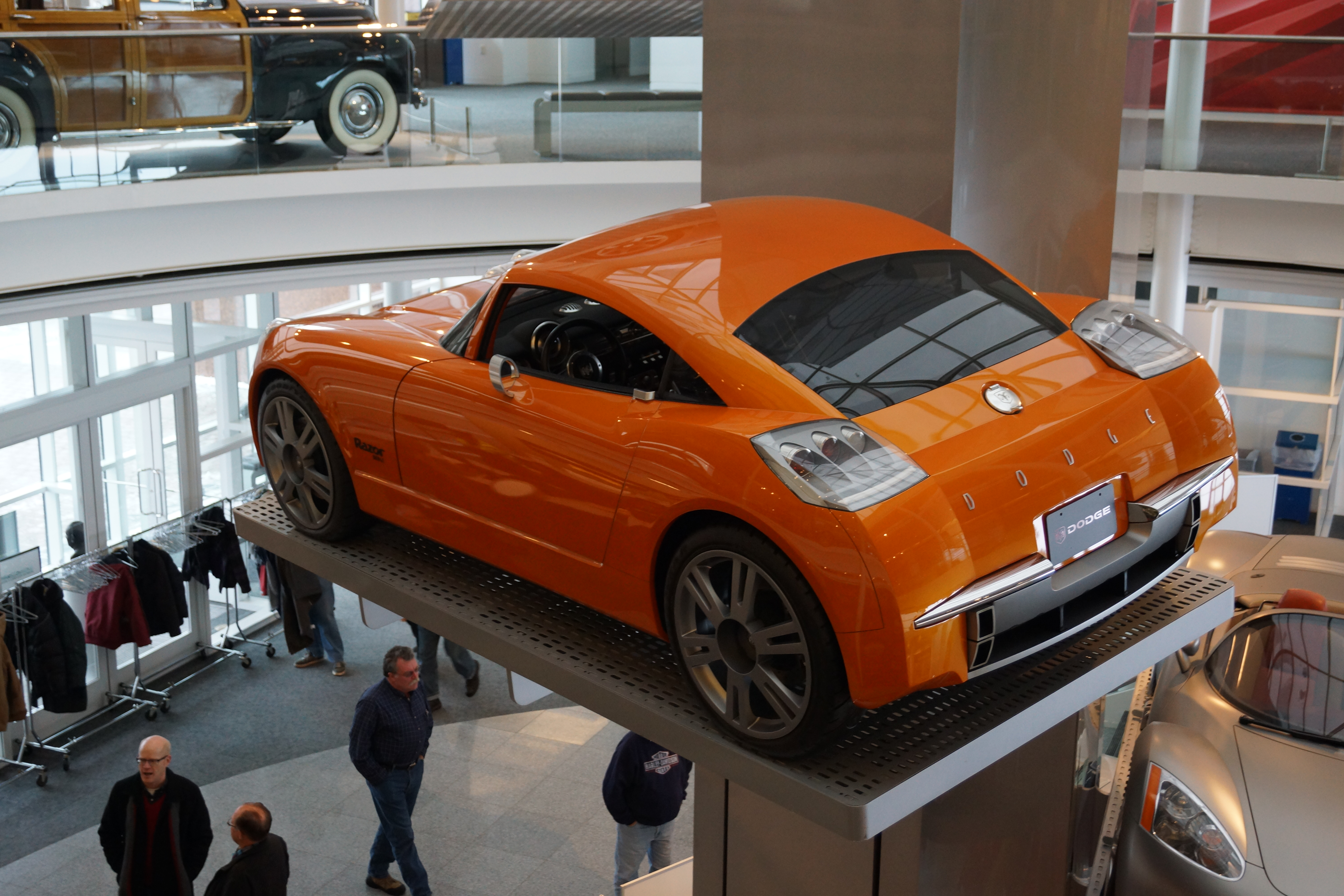 Click here for more car pictures at my Flickr site. Or here for my Car Crazy Tumblr site. Back on November 4th, Hemming's Blog posted an article about the closing of the Walter P. Chrysler Museum . I had missed a couple other opportunities with the WPC Club and others to get into the museum, after it had closed to the public. I did not want to regret missing this last chance to see all of the vehicles before being spread out to other facilities. I trekked from Western Minnesota to Eastern Michigan during Winter Storm Decima. I missed the worst parts of the storm, but still had to endure the aftermath winds, sub zero temperatures and a lake effect snow storm. The trip was difficult, but well worth it. I got to see several Chrysler Corporation concept and show cars that I had only seen pictures of before. There were several clever interactive displays demonstrating various innovations over the years. Since it was the last chance, I duplicated several shots using different camera settings to see what produced better results. I wish I had invested in a strobe light diffuser for all of those indoor pictures. I have not had much experience or success in the past with indoor car images.